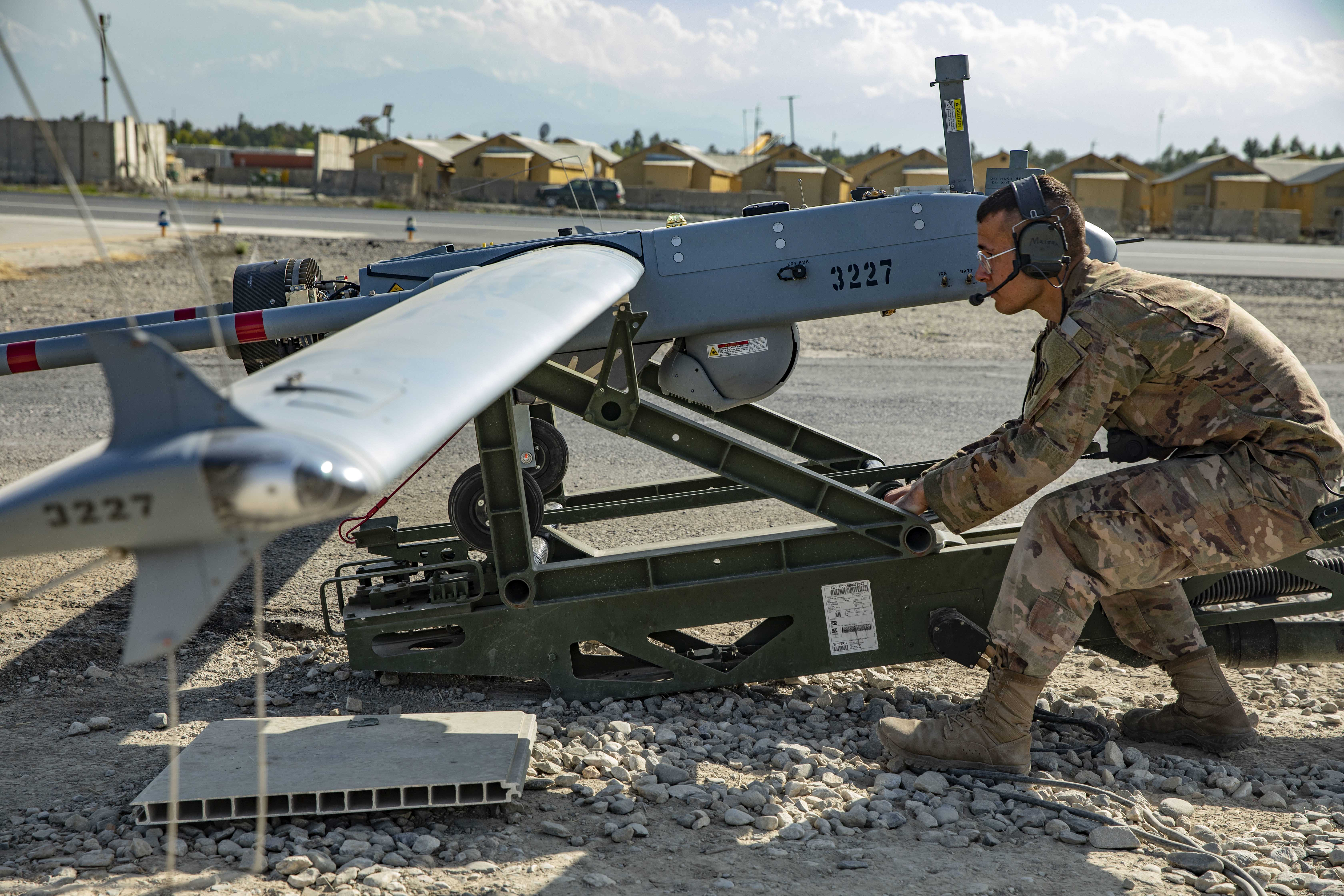 Spc. Fernando Marzan, a 15E UAS Maintainer with Det. 1, D Co., 177 BEB, 48th Infantry Brigade Combat Team conducts preflight inspections on the RQ-7B Shadow UAS in eastern Afghanistan. The unit conducts 24-hour operations to keep visibility over TAAC-East.